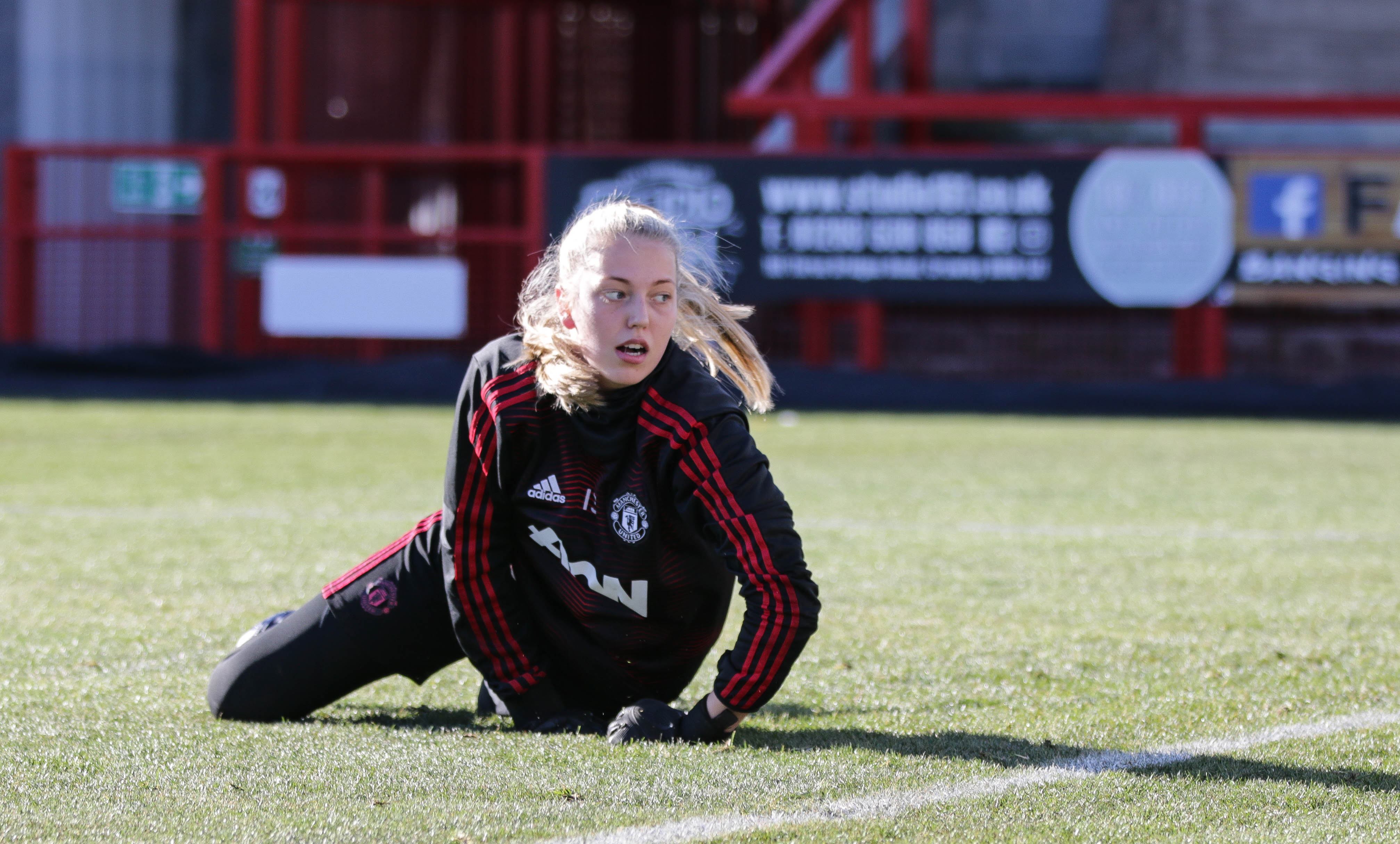 Emily Ramsey